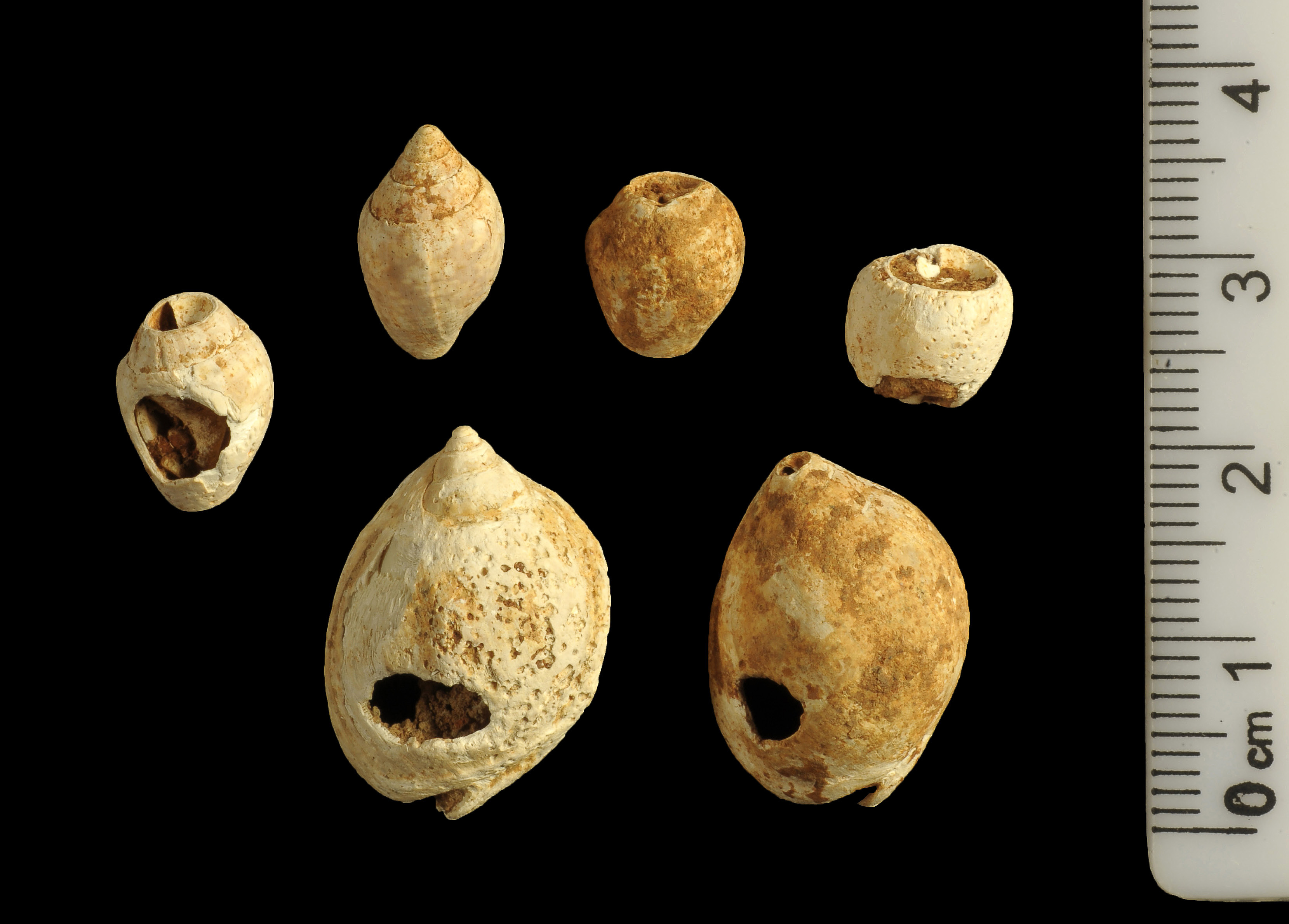 marine shells. Manot Cave (Israel), The Upper Paleolithic Period.